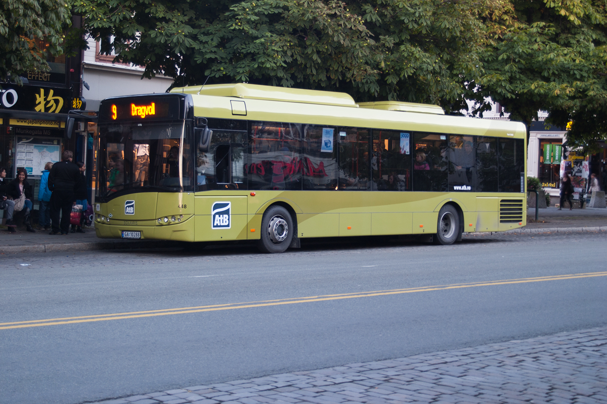 Bus from Team Trafikk in AtB colors in Munkegata, Trondheim, Norway. Solaris Urbino 12 LE CNG bus (#448), built in 2010.